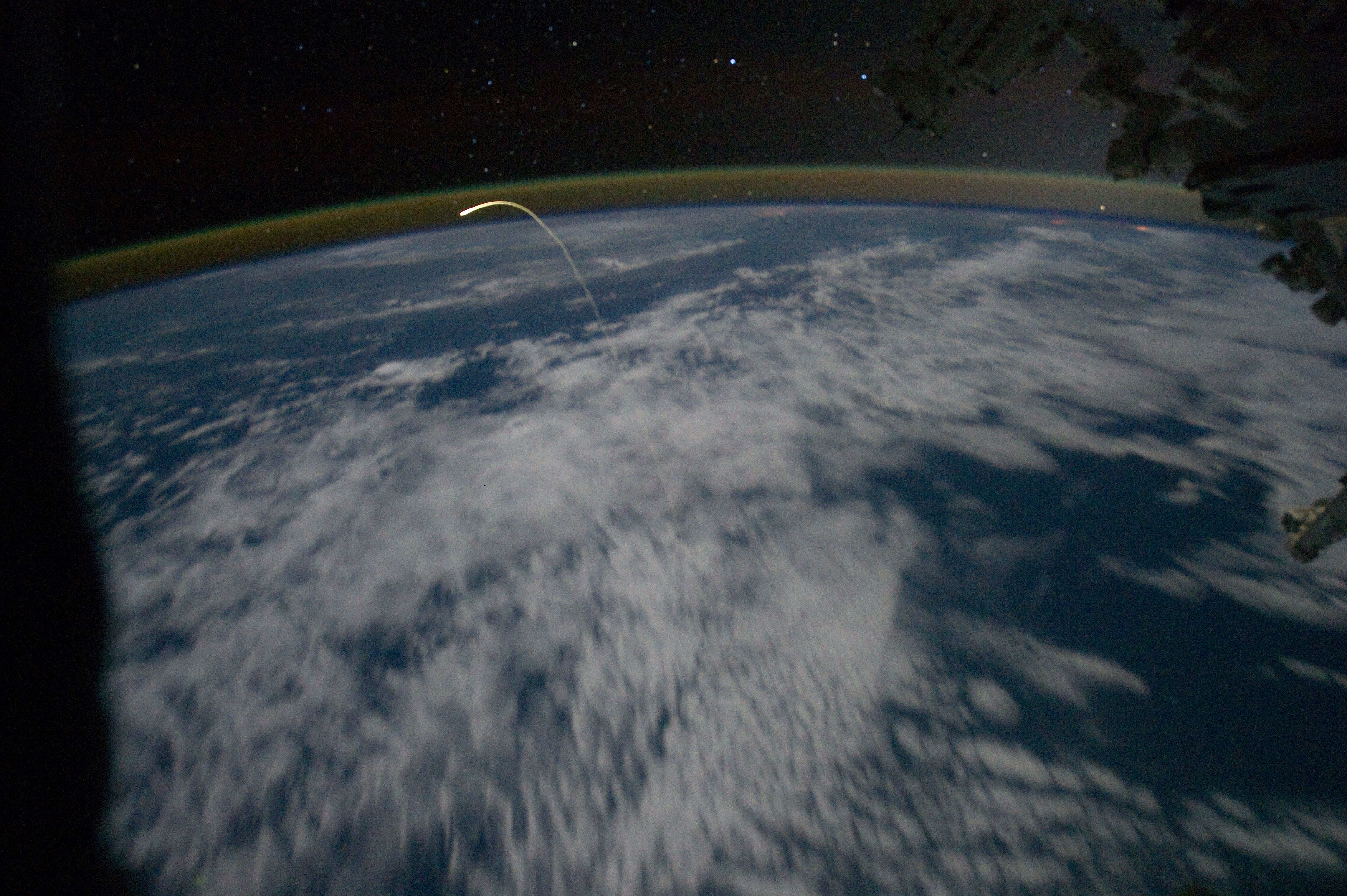 Like a comet streaking across the atmosphere, the Space Shuttle Atlantis left space for the final time on July 21, 2011, descending to a smooth landing at NASA’s Kennedy Space Center in Florida. This astronaut photograph, taken from the vantage of the International Space Station (ISS), shows the streak of an ionized plasma plume created by the shuttle’s descent through the atmosphere. At the time of the image, the ISS was positioned northwest of the Galapagos Islands, while Atlantis was roughly 2,200 kilometers (1,367 miles) to the northeast, off the east coast of the Yucatan Peninsula. The maximum angle of the shuttle’s descent was roughly 20 degrees, though it appears much steeper in the photo because of the oblique viewing angle from ISS. Parts of the space station are visible in the upper right corner of the image. In the background of the image, airglow hovers over the limb of the Earth. Airglow occurs as atoms and molecules high in the atmosphere (above 80 kilometers, or 50 miles altitude) release energy at night after being excited by sunlight (particularly ultraviolet) during the day. Much of the green glow can be attributed to oxygen molecules.